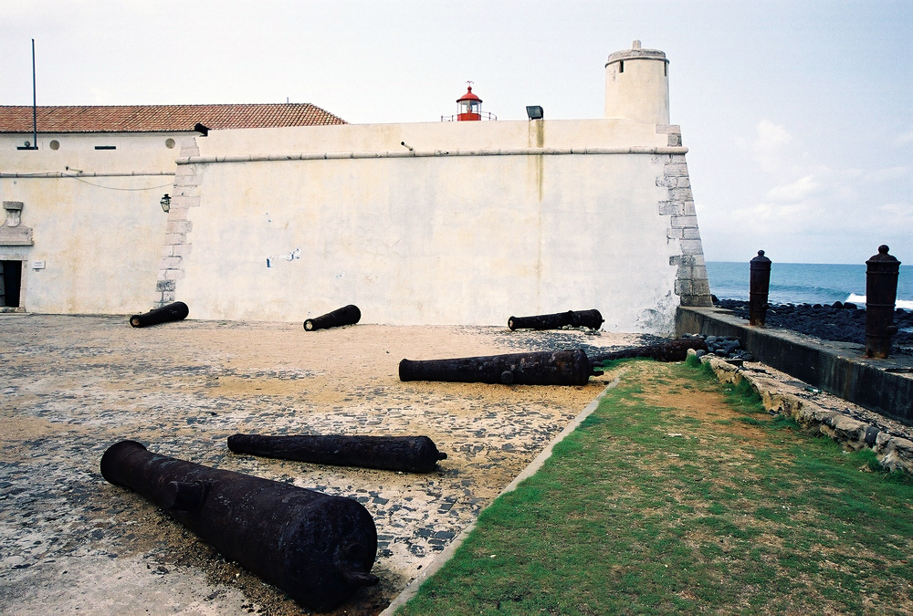 The equatorial island Sao Tomé Photograph by Henryk Kotowski